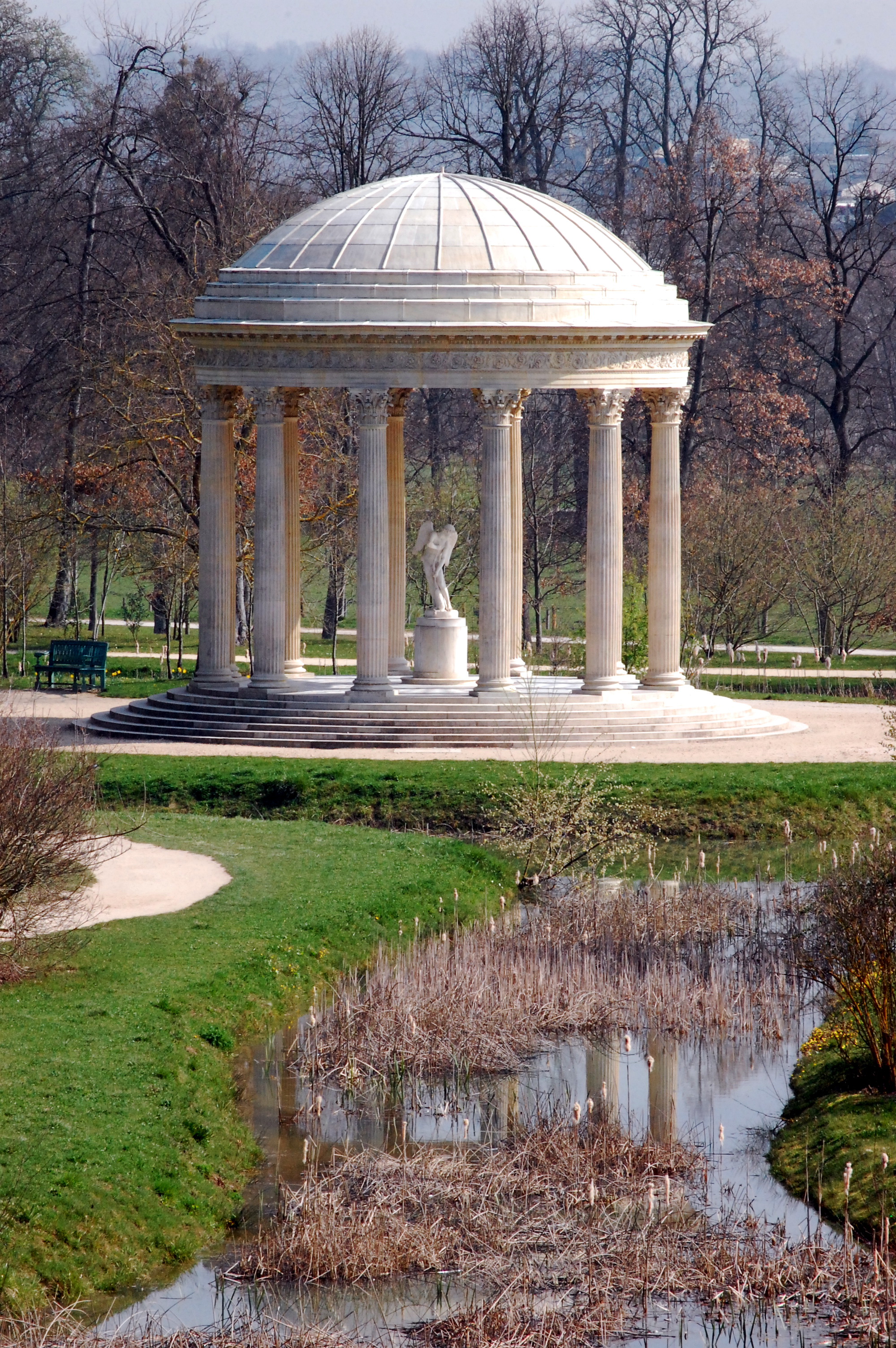 The Temple de l'Amour seen from the Petit Trianon